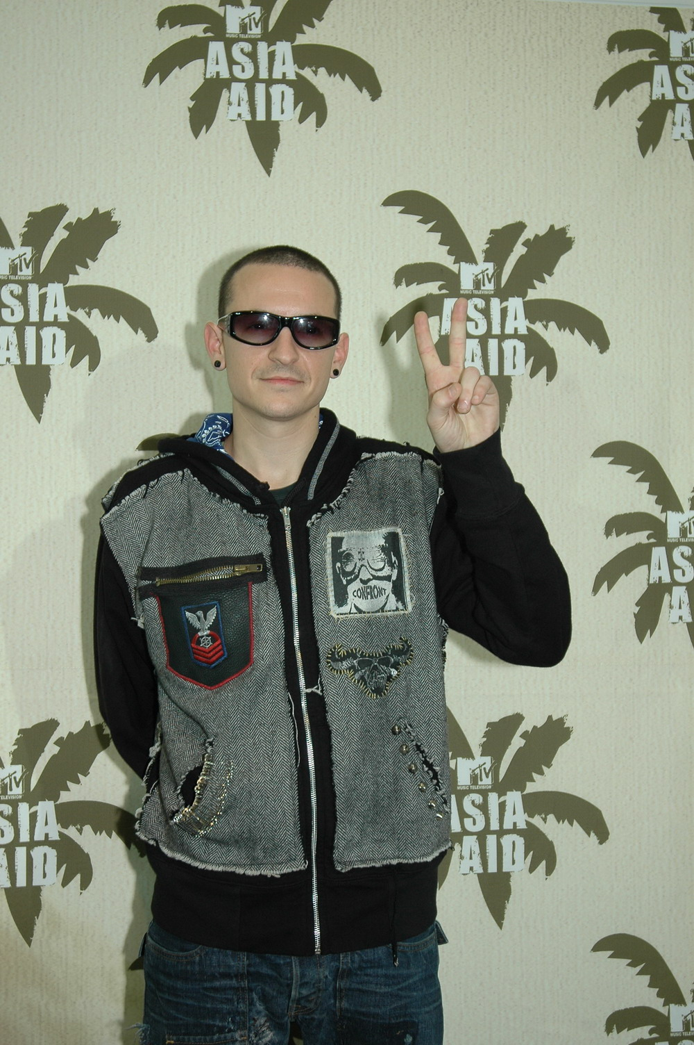 Chester Bennington at the MTV's Asia Aid.